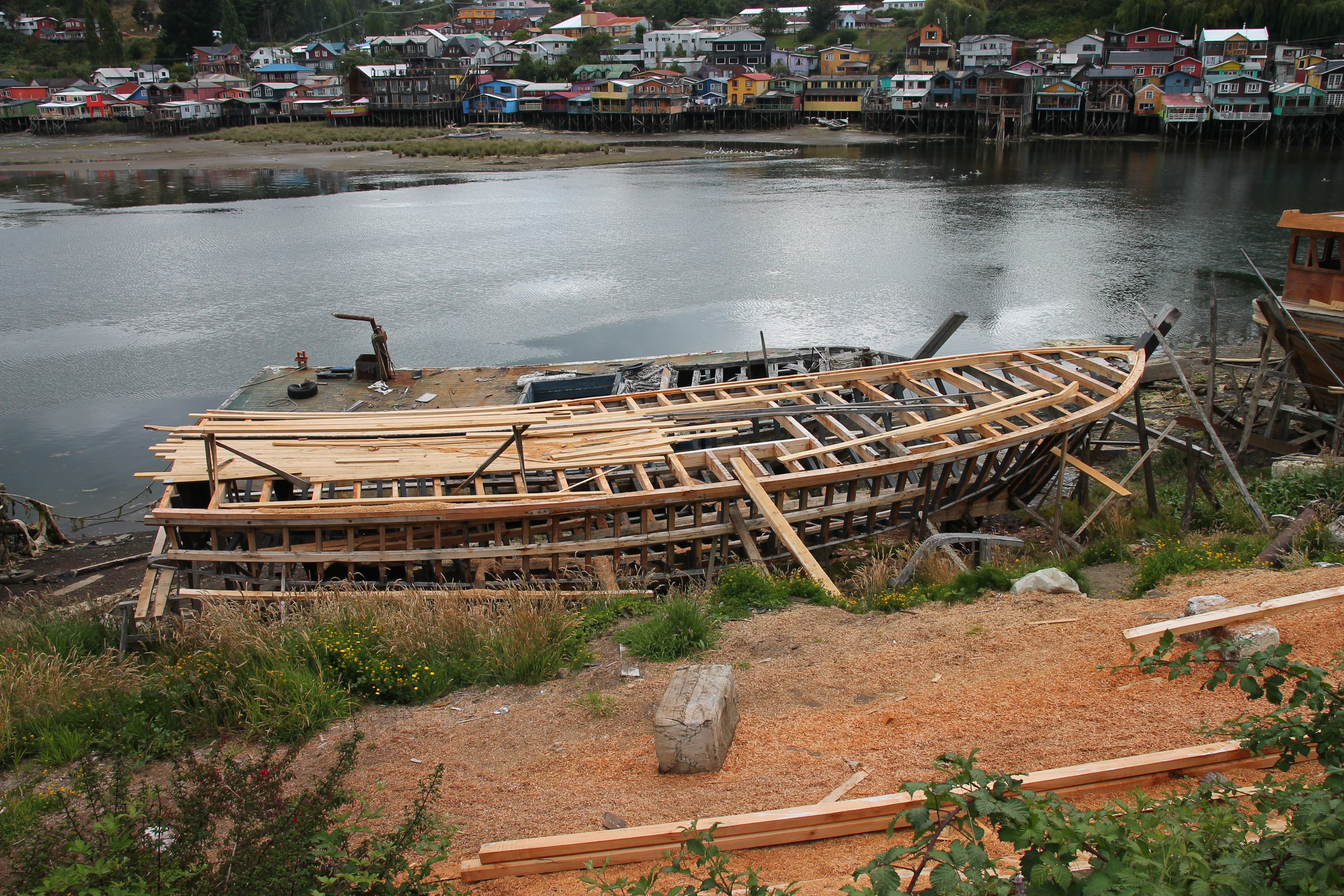 Ship construction in Castro, Chiloé